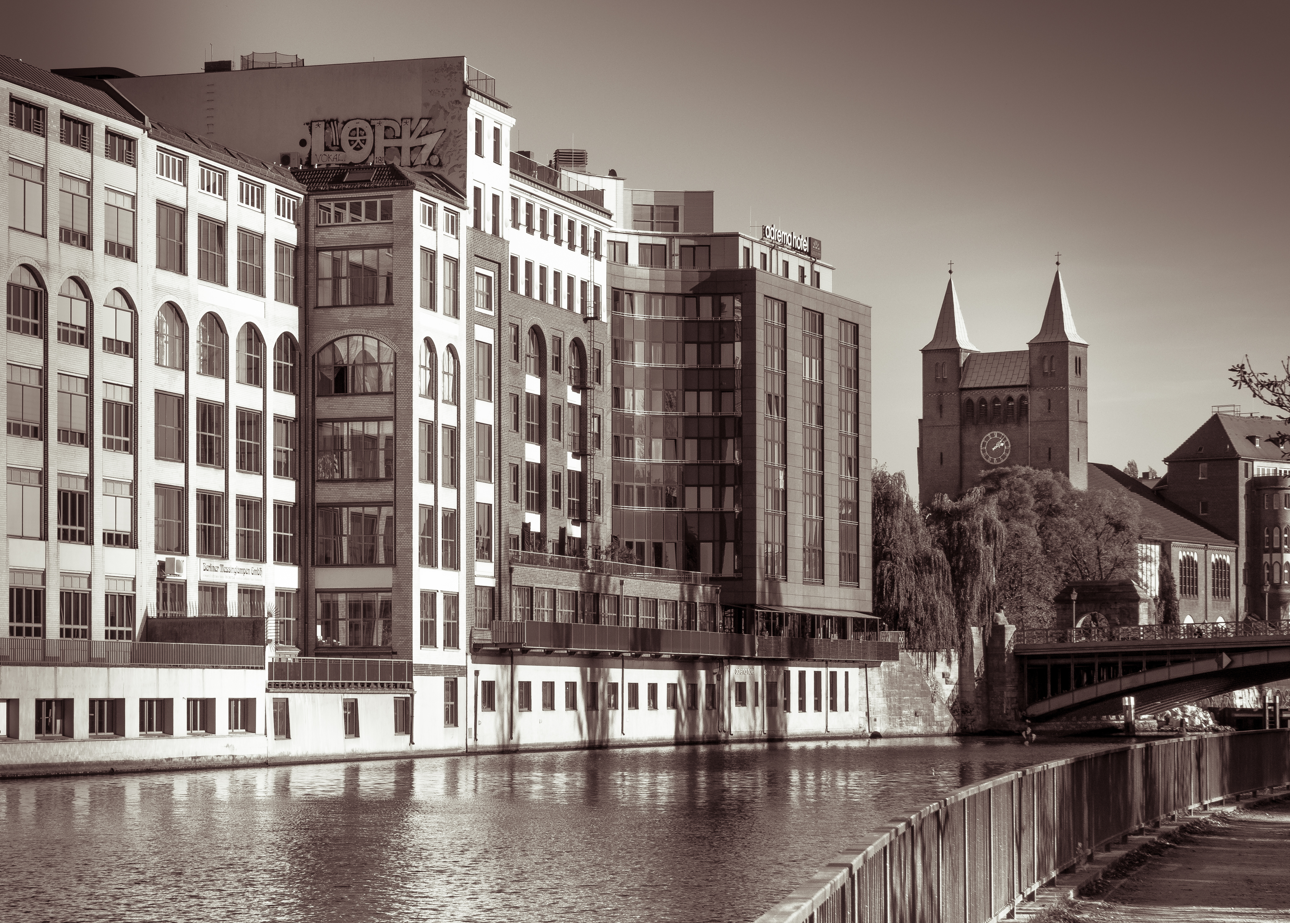 Berlin, Spree, View of Gotzkowskybrücke from north